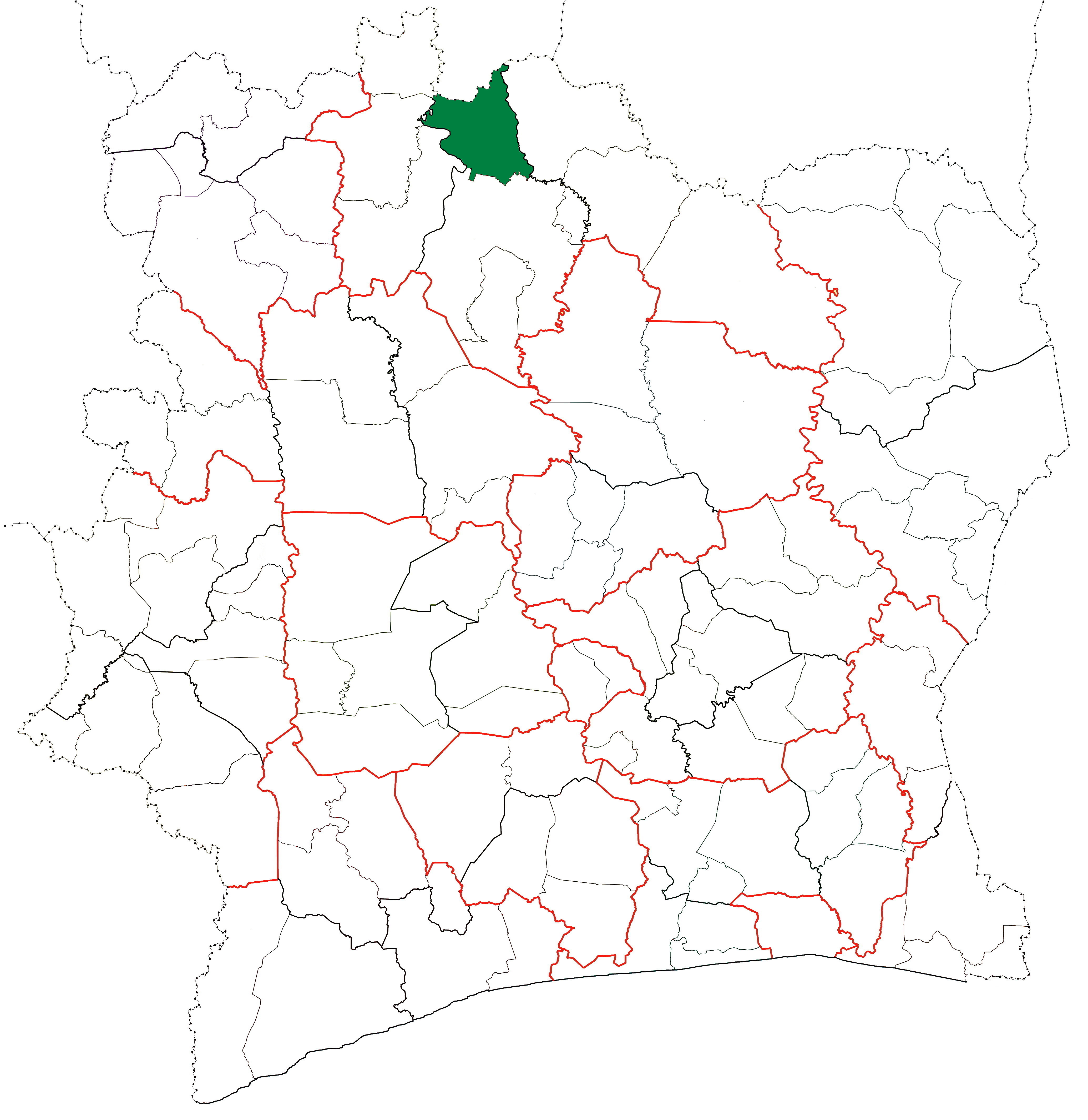 Locator map for M'Bengué Department in Côte d'Ivoire.